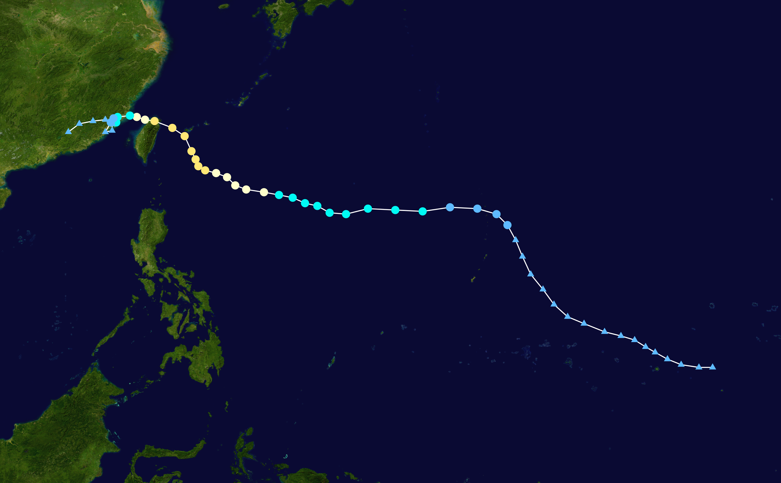 Track map of Typhoon Yancy of the 1990 Pacific typhoon season. The points show the location of the storm at 6-hour intervals. The colour represents the storm's maximum sustained wind speeds as classified in the Saffir-Simpson Hurricane Scale (see below), and the shape of the data points represent the nature of the storm, according to the legend below. Saffir–Simpson hurricane wind scale Tropical depression≤38 mph≤62 km/h Category 3111–129 mph178–208 km/h Tropical storm39–73 mph63–118 km/h Category 4130–156 mph209–251 km/h Category 174–95 mph119–153 km/h Category 5≥157 mph≥252 km/h Category 296–110 mph154–177 km/h Unknown Storm typeTropical cycloneSubtropical cycloneExtratropical cyclone / Remnant low / Tropical disturbance